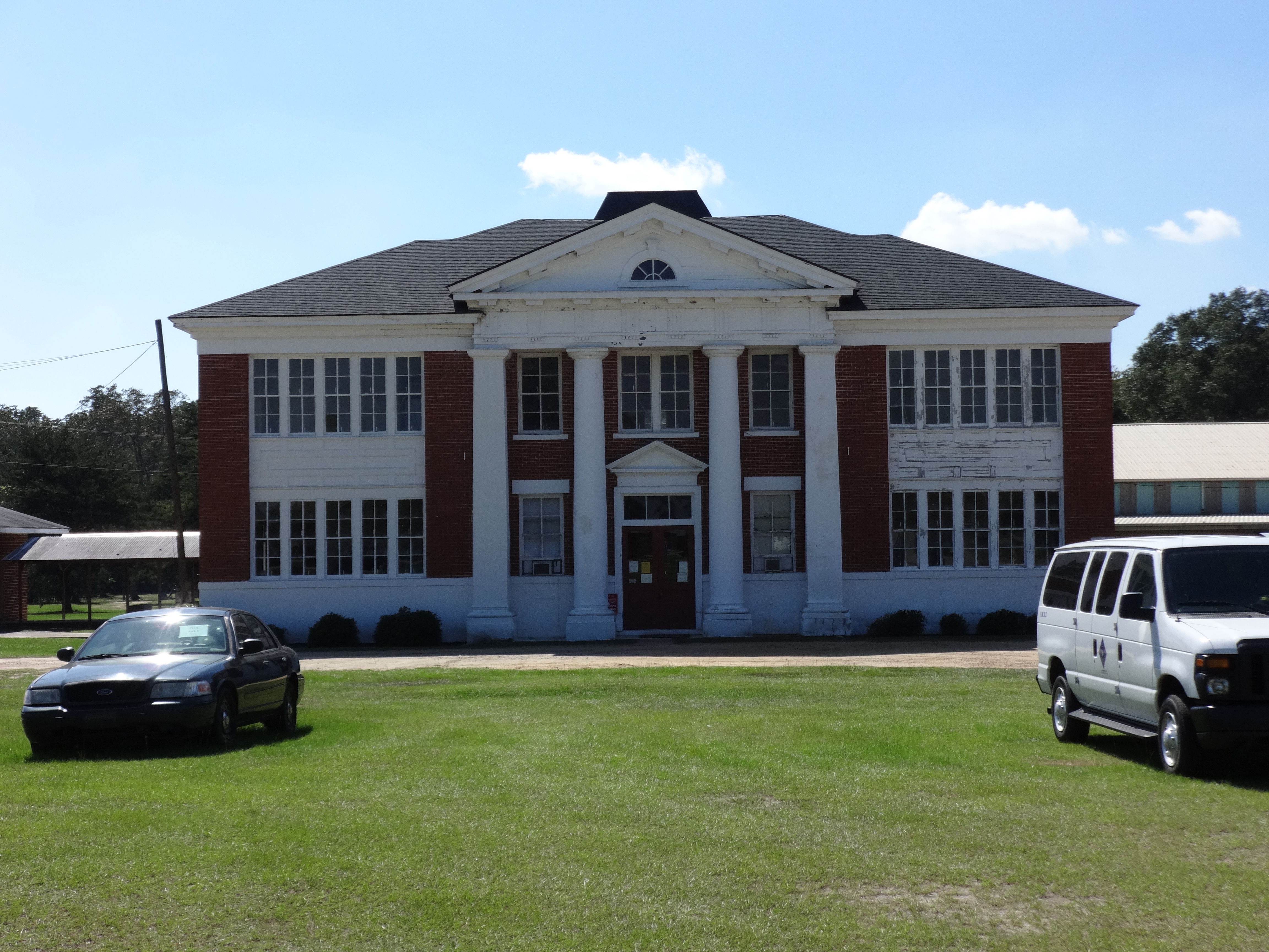 Chauncey School, City Hall, Police Station, Chauncey, Dodge County, Georgia